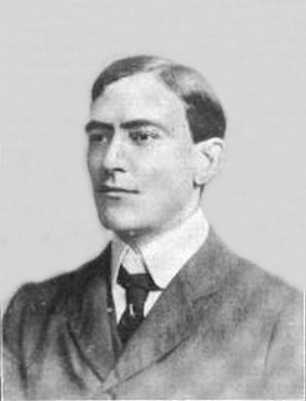 A photograph of John Hubert Marshall, Director General of the Archaeological Survey of India, published with his entry in the Cyclopedia of India, Calcutta, 1906